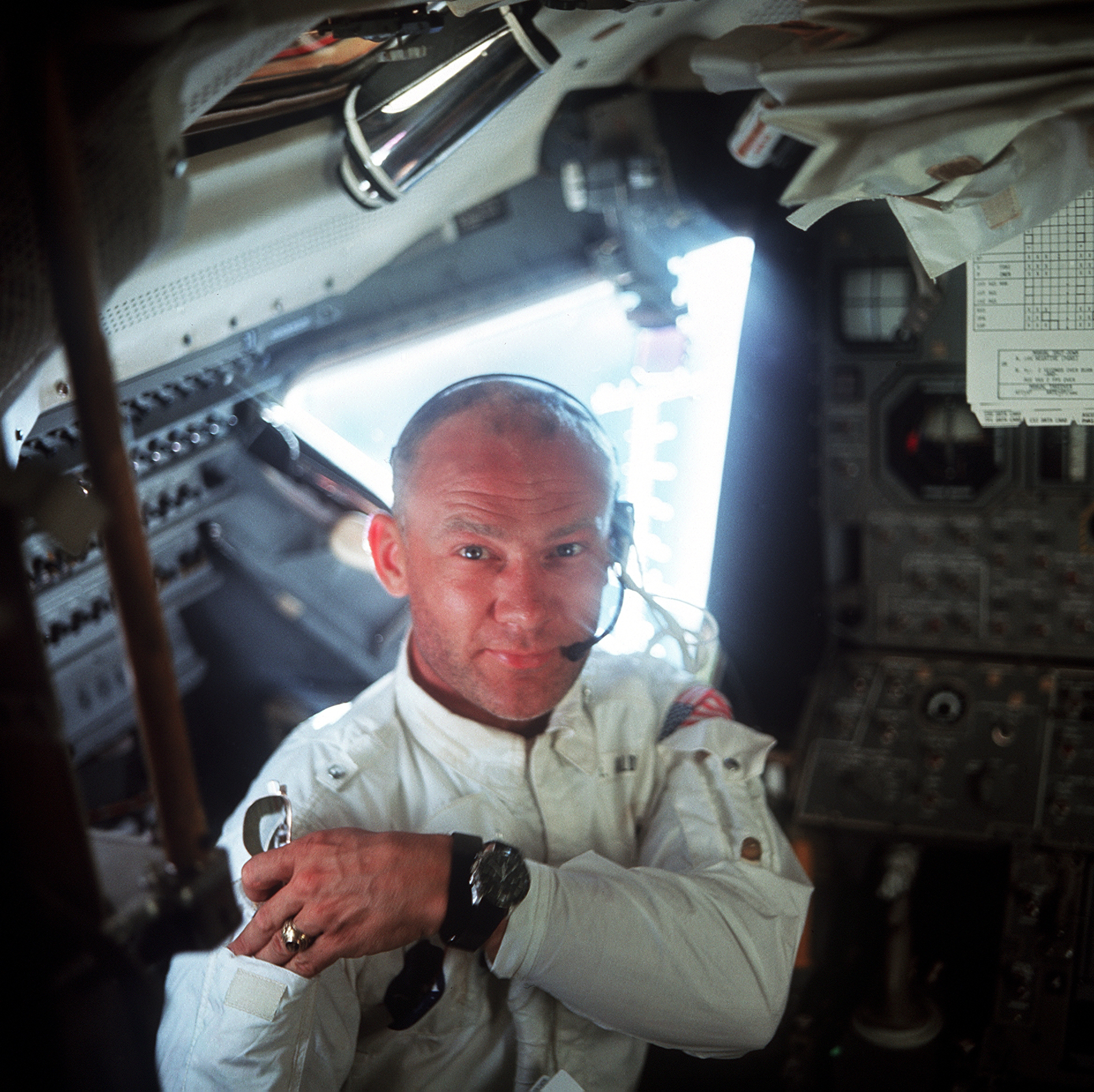 Edwin "Buzz" Aldrin during the lunar landing mission.